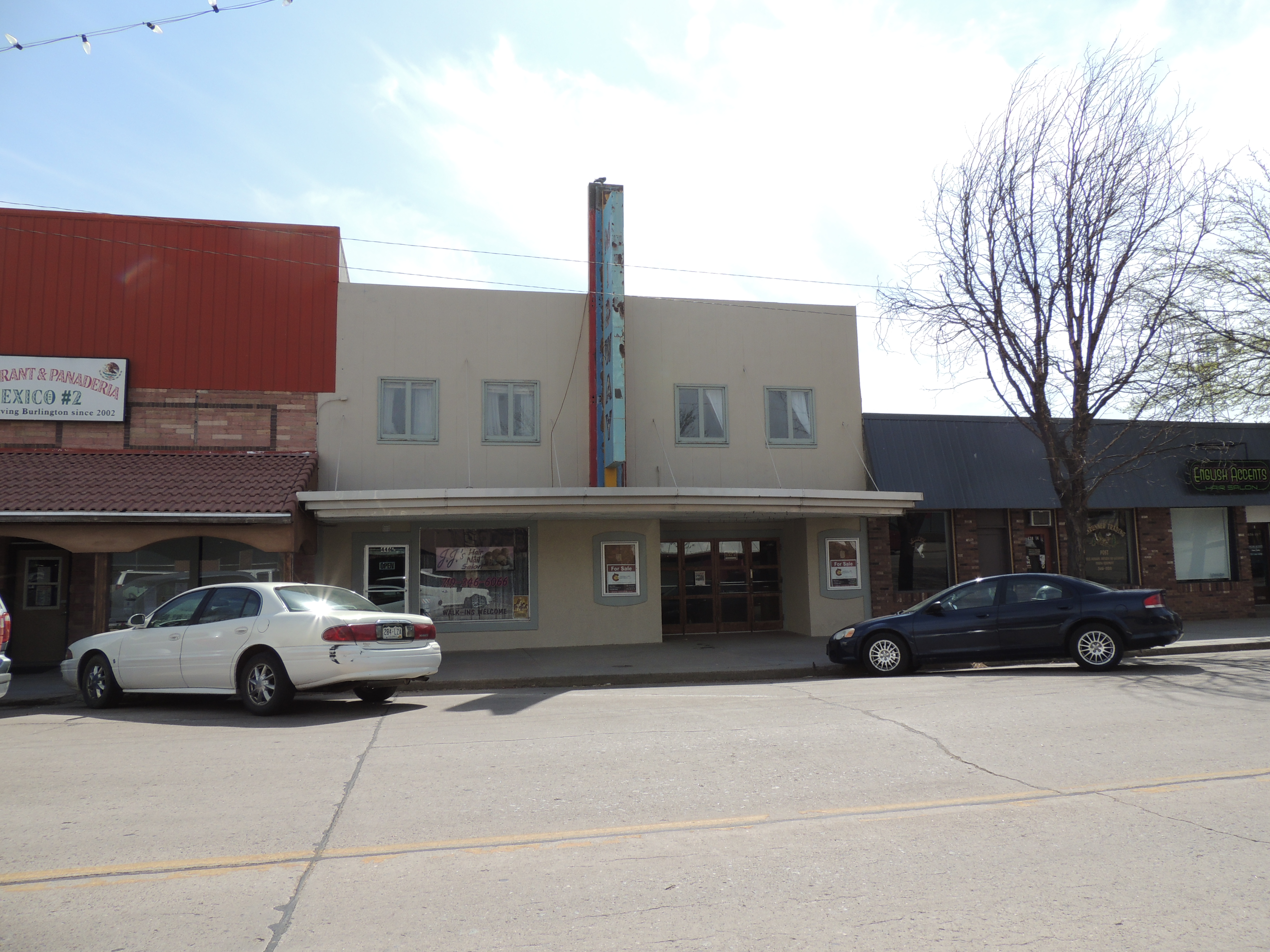 Business District of Burlington Colorado